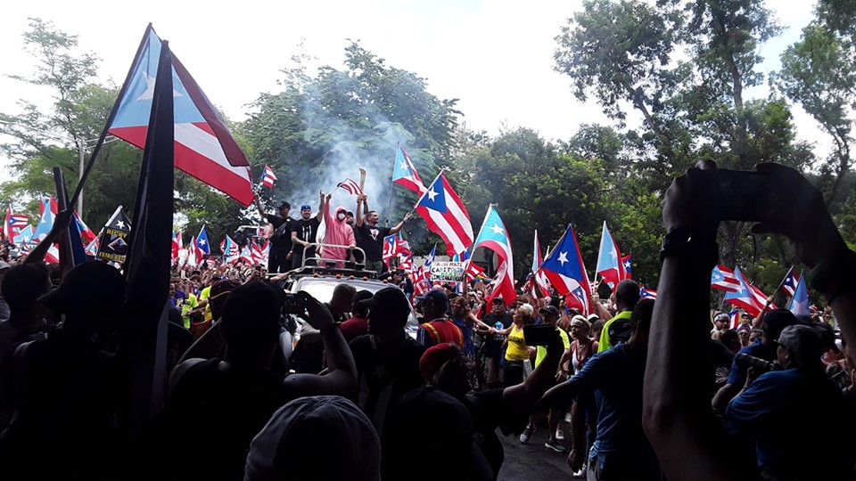 Protesters on July 25, 2019, celebrate in Puerto Rico following the resignation of Governor Ricardo Rosselló, marching from Milla de Oro in Hato Rey to the Hiram Bithorn Stadium in San Juan.